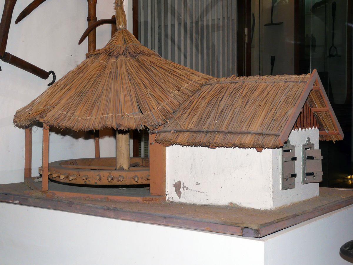 The János Arany Museum in Nagykörös (Hungary)